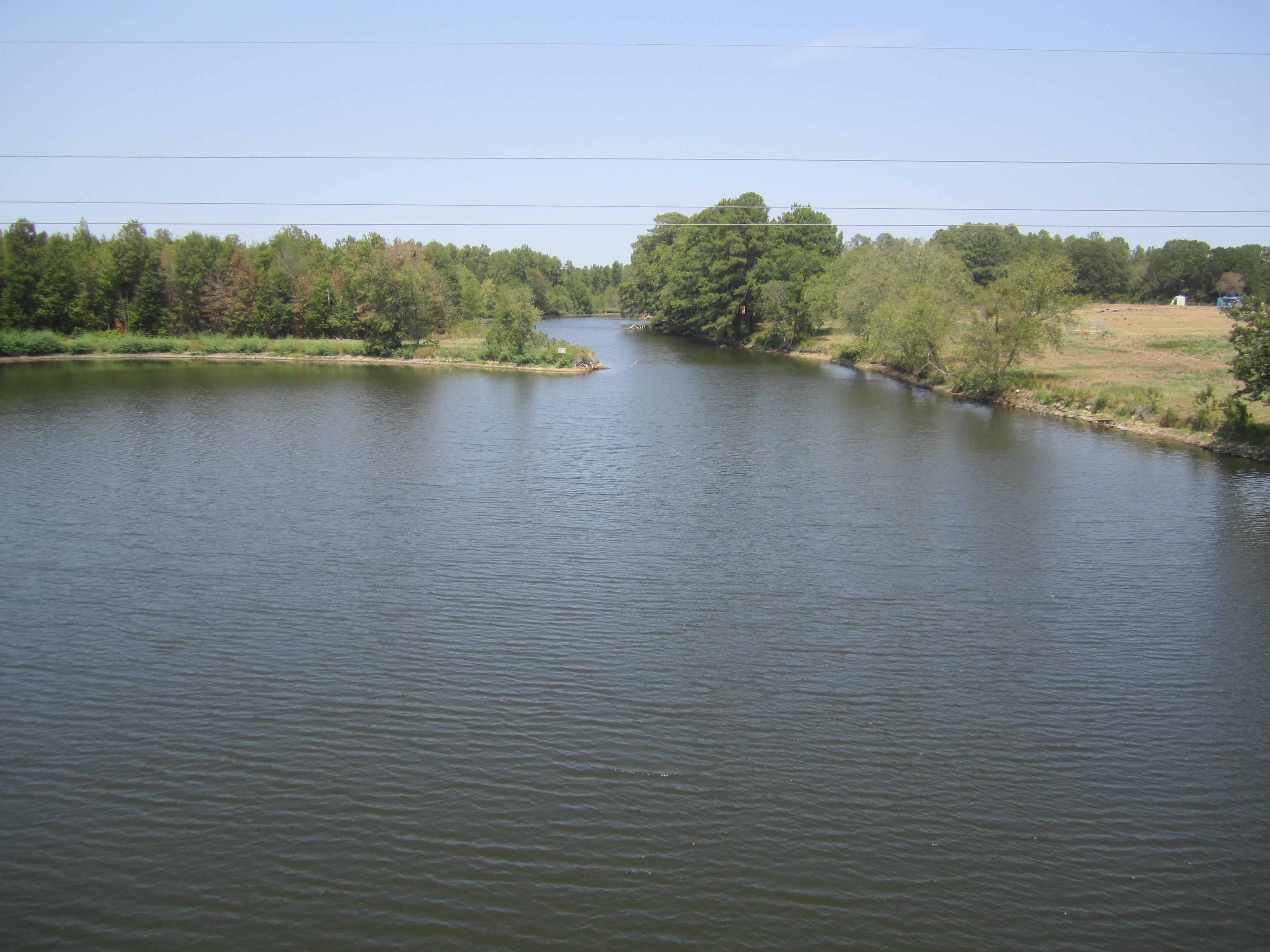 I took photo with Canon camera of Sabine River south of Big Sandy, TX.